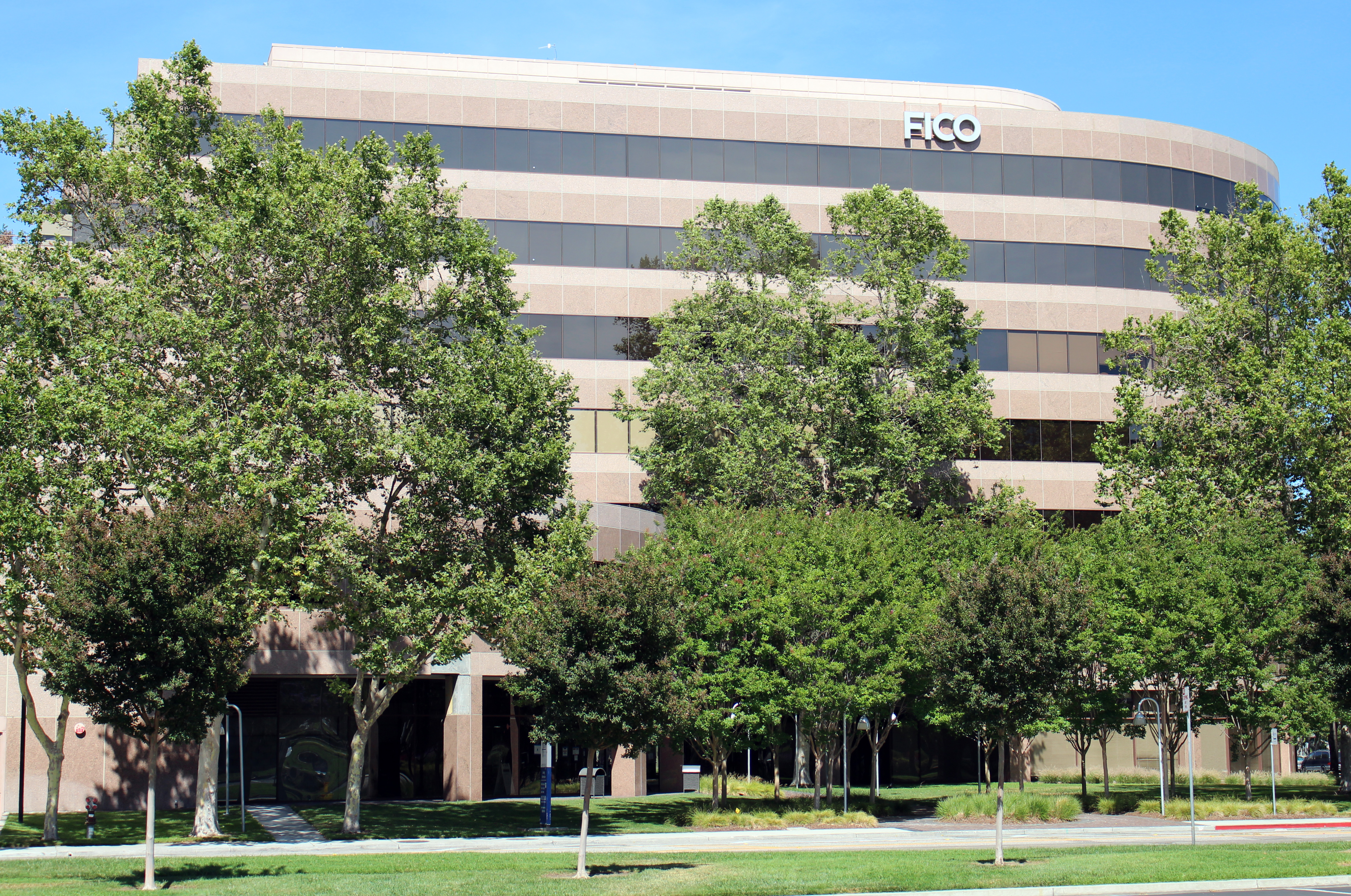 FICO headquarters in San Jose, California. Photographed on June 14, 2020 by user Coolcaesar.